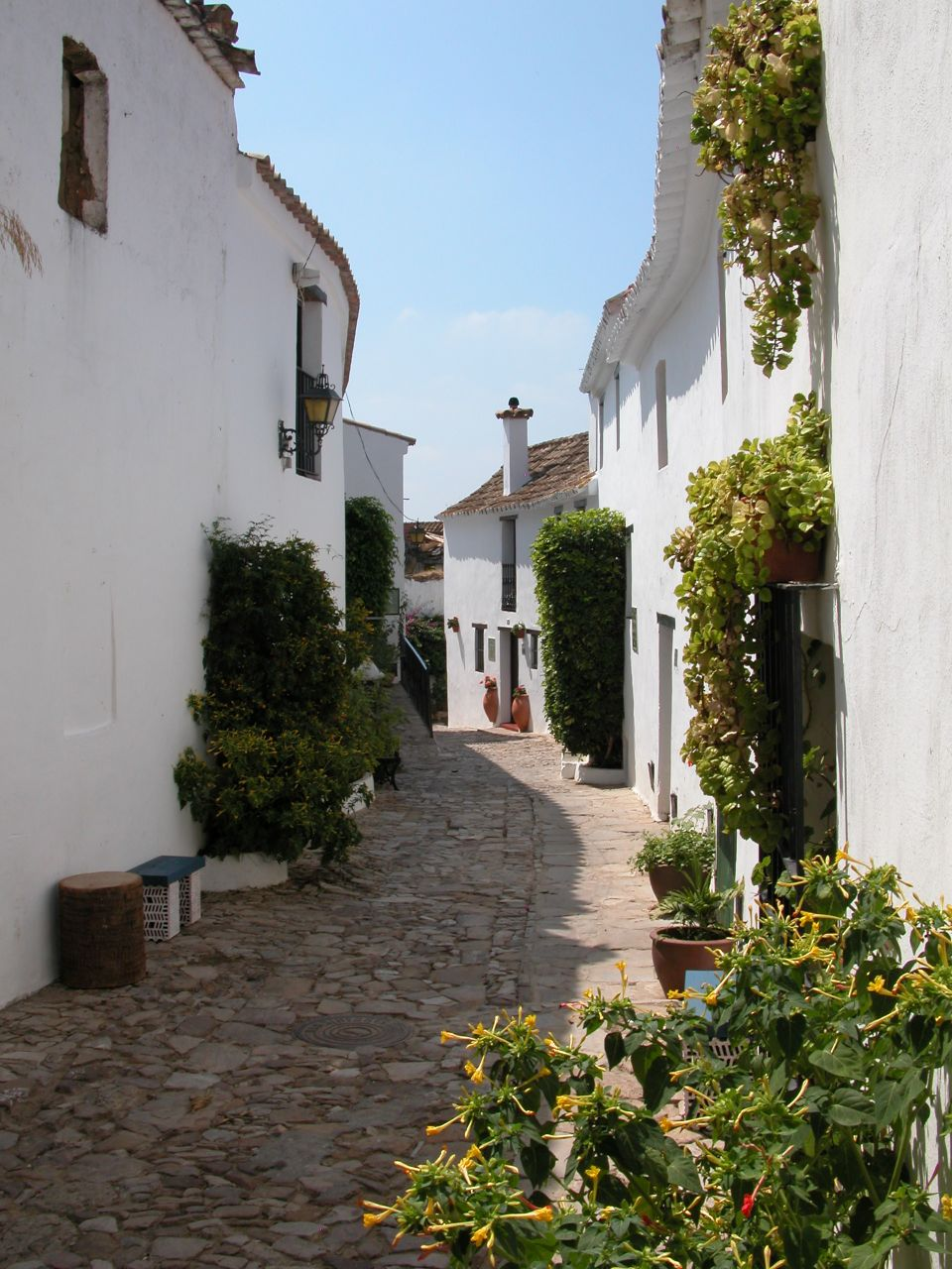 Castellar - Hippie Commune in southern spain.